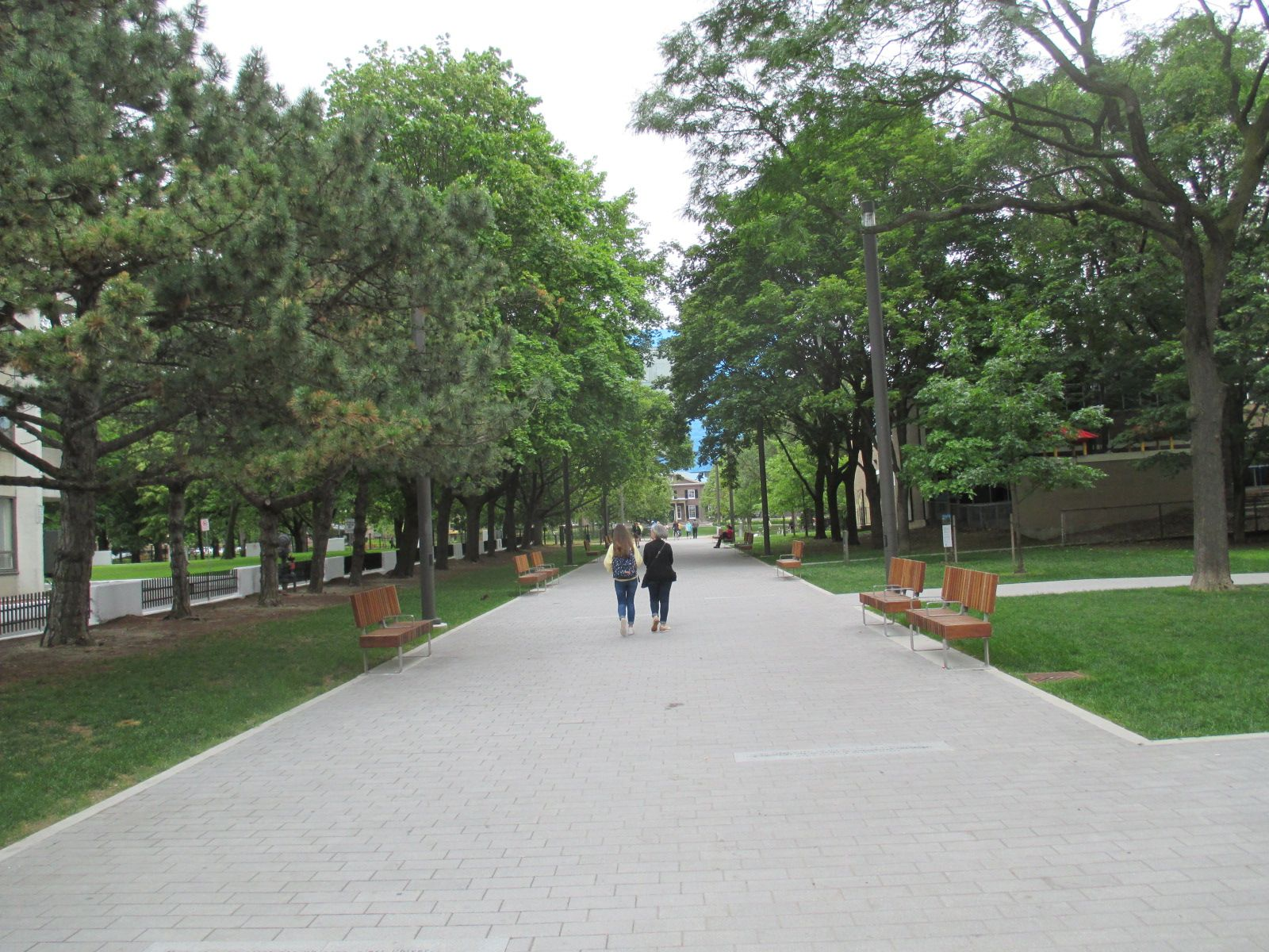 Entrance to Grange Park in Toronto, from the south entrance at John Street